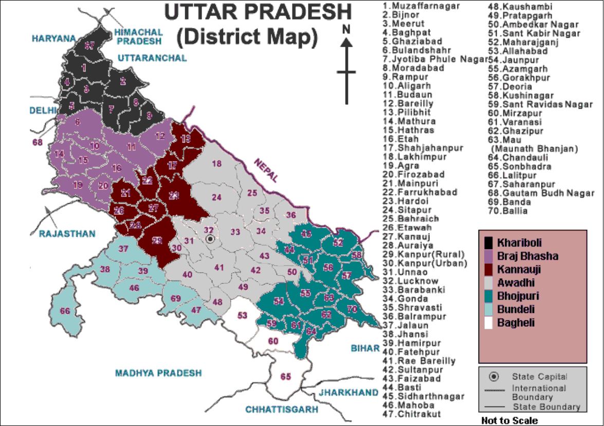 A map showing the distribution of various native languages across the different districts of Uttar Pradesh state, India.